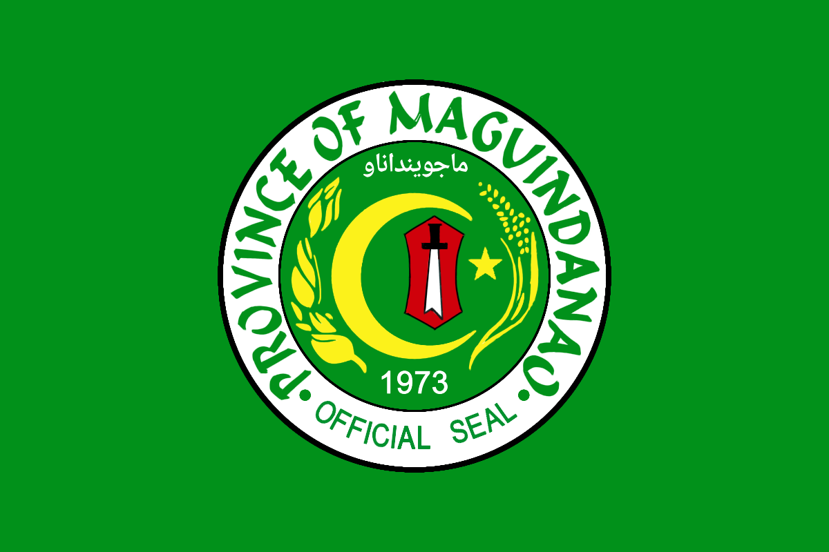 Provincial flag of Maguindanao